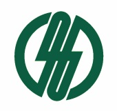 Tagajo Miyagi chapter